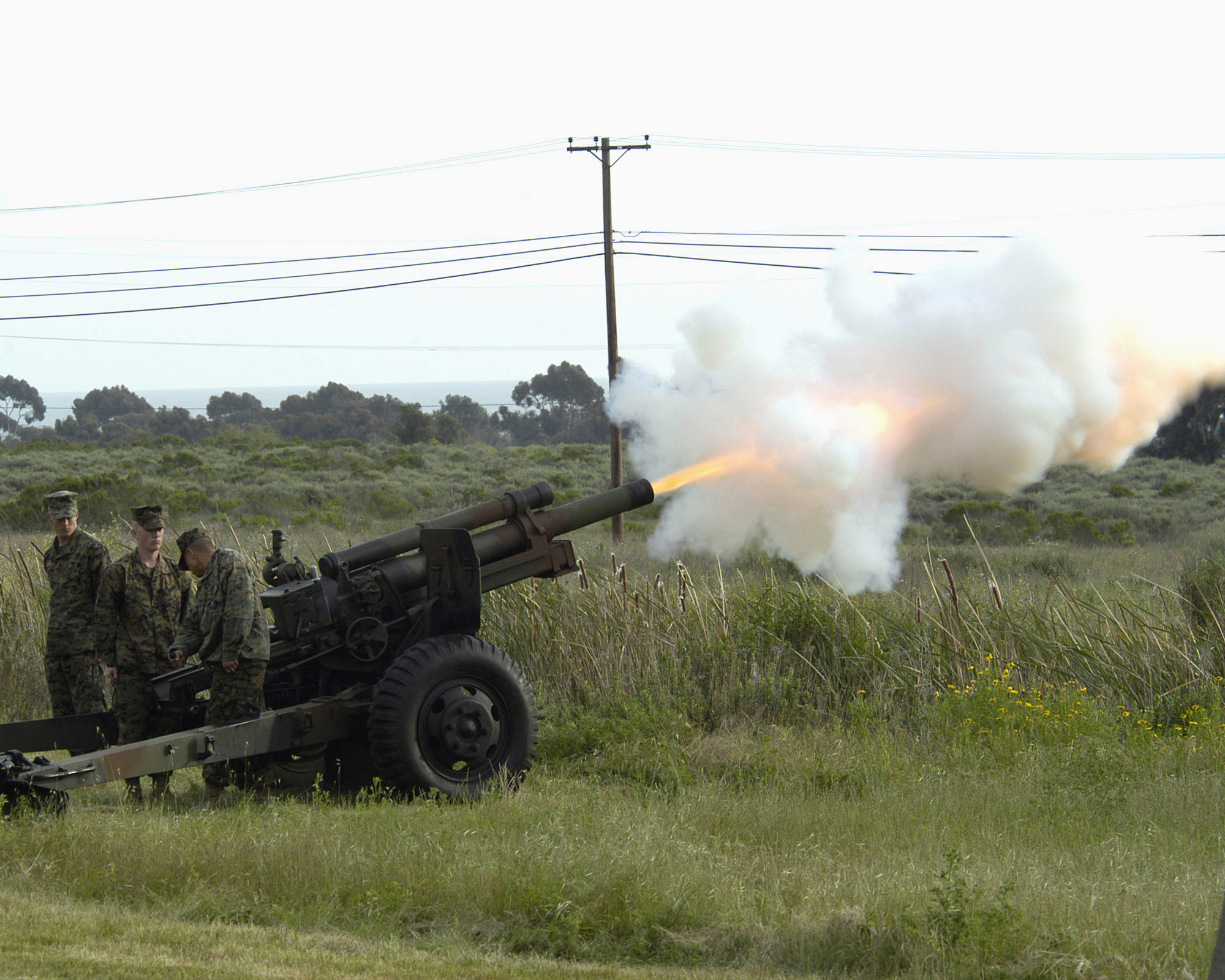 Marines from 11th Marines, 1st Marine Division fire a M101 105 mm Howitzer during the playing of taps at the Iwo Jima 60th Anniversary Commemorative on 26 March 2005. Camp Pendleton, California.